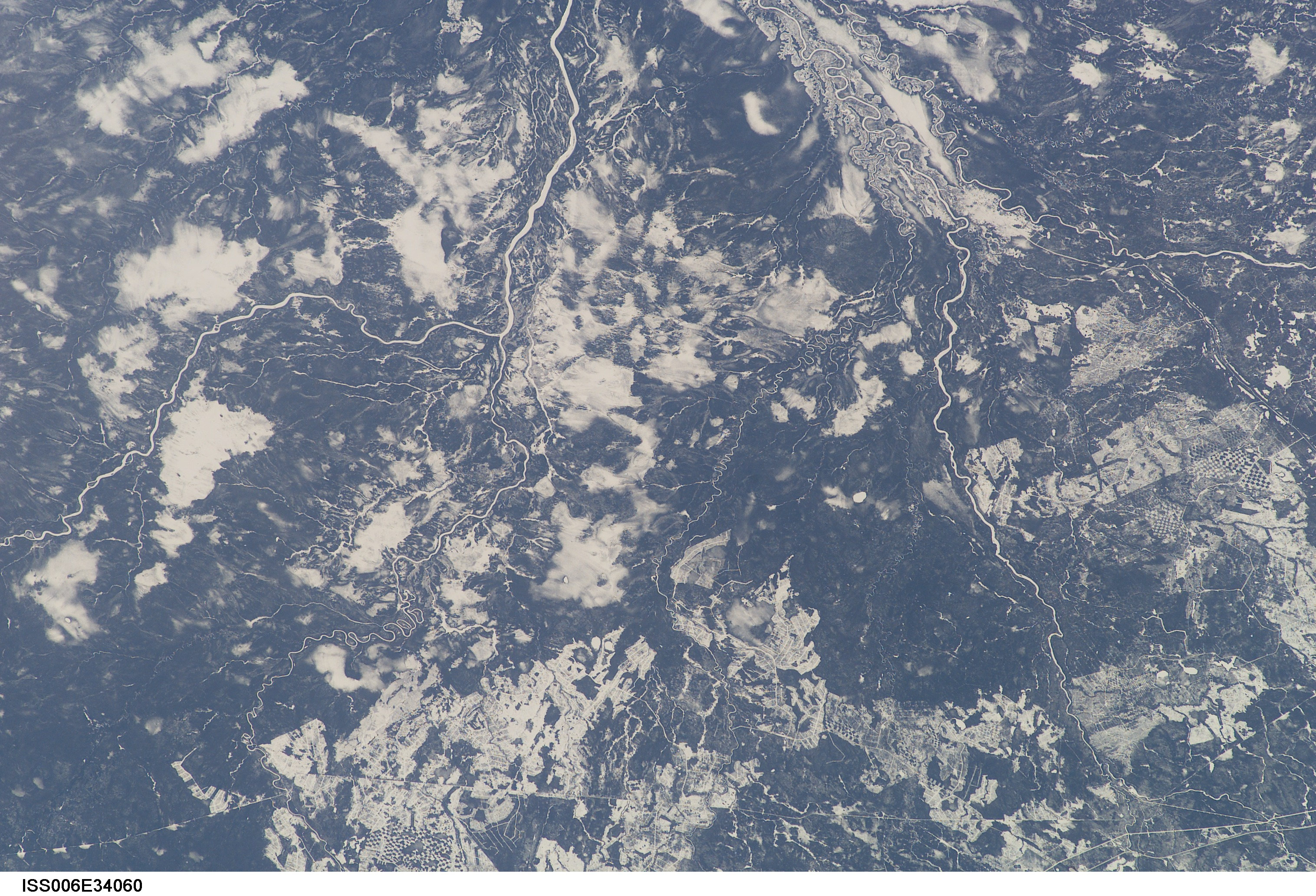 Image Science and Analysis Laboratory, NASA-Johnson Space Center. "The Gateway to Astronaut Photography of Earth." Mission: ISS006 Roll: E Frame: 34060 Mission ID on the Film or image: ISS006 Country or Geographic Name: CANADA-O Features: KENOGAMI RIVER, SNOW Center Point Latitude: 50.0 Center Point Longitude: -84.5 Nasa file name: ISS006-E-34060.JPG